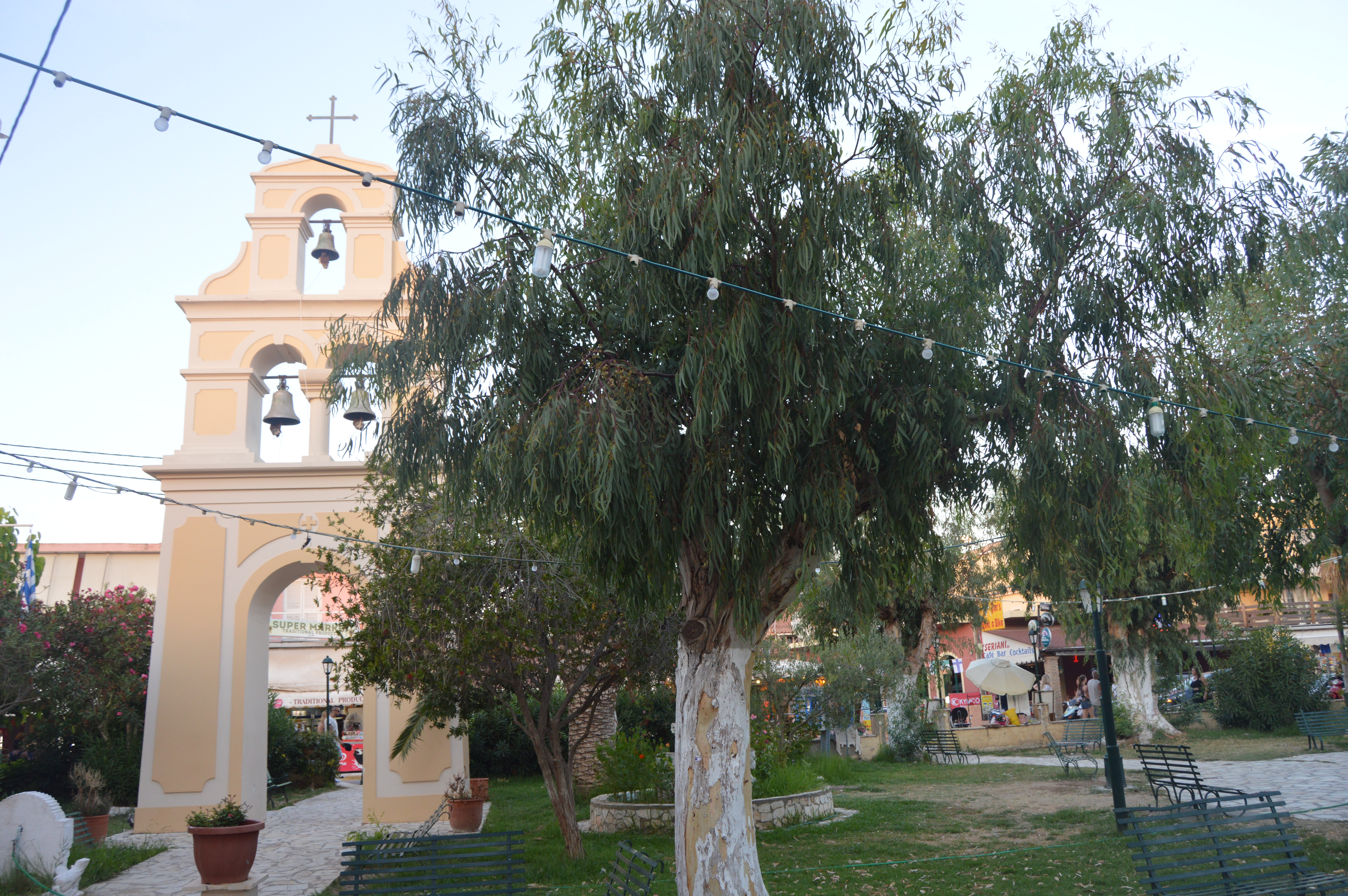 The photograph was taken in the gardens of the Sidari Monastery.